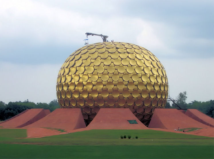 Matrimandir, Auroville Near Pondicheery in India